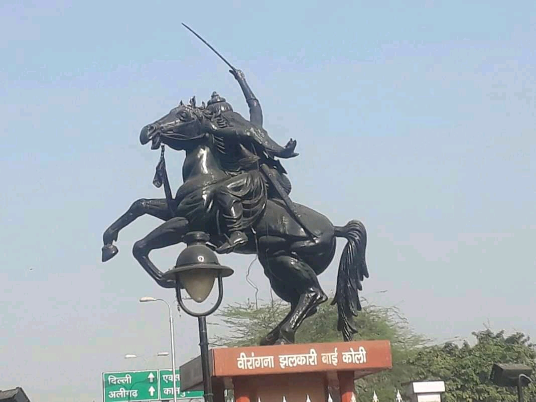 Statue of Freedom Fighter Jhalkari Bai In Agra City